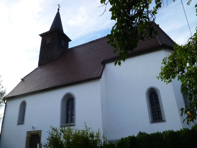 Kath. Filialkirche, Wallfahrtskirche hl. Veit